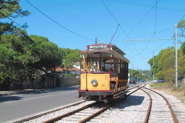 Tram no.7 at the Pinhal de Nazaré passing loop